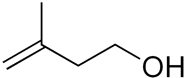 chemical structure of isoprenol